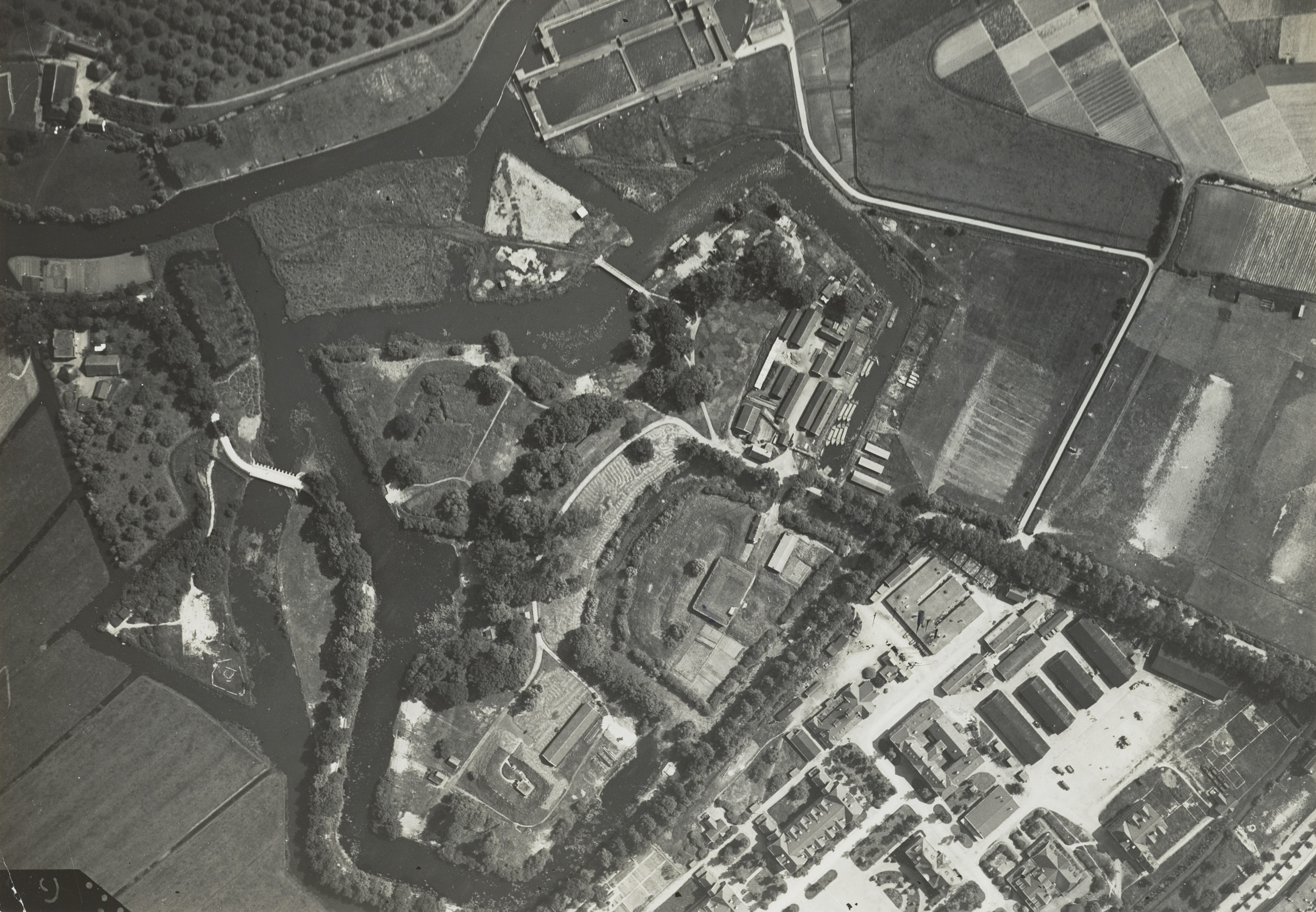 Aerial photograph of the former Vossegat Fort and the Kromhout Barracks in Utrecht, The Netherlands.